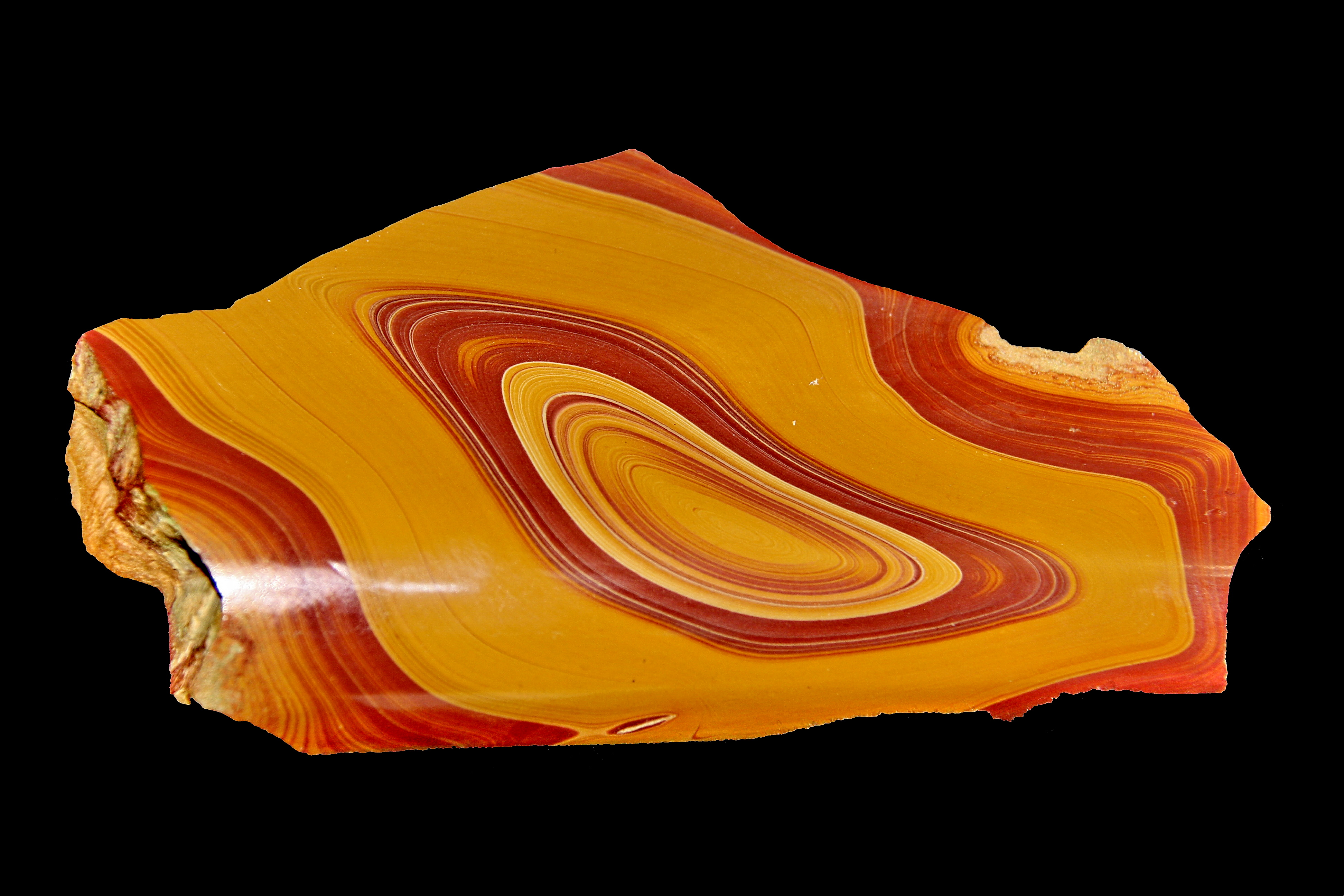 Liesegang rings in volcano-sedimentary rock from the Gobi Desert of Mongolia. Polished sample 15x9 cm. Credit: Dmitry Demezhko (distributed via ).